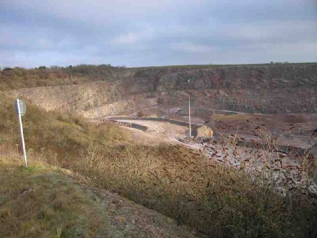 Quarry near Holwell, Somerset. One of several smallish quarries at the Eastern end of the Mendips.